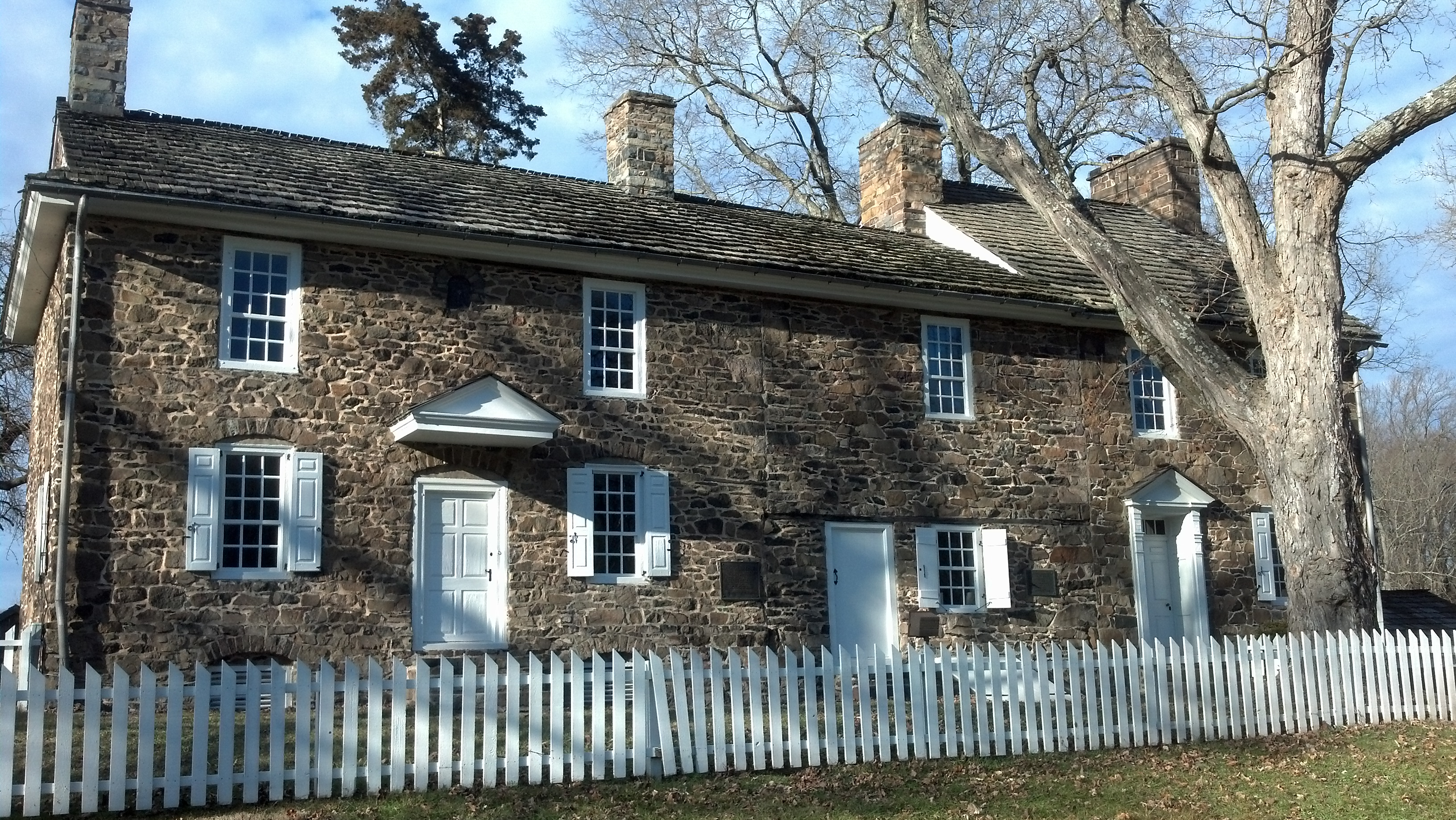 Thompson-Neely House in January